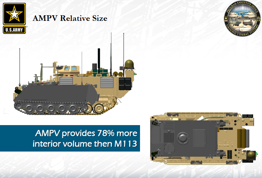 U.S. Army's Armored Multi-Purpose Vehicle (AMPV) compared to the M113 armored personnel carrier